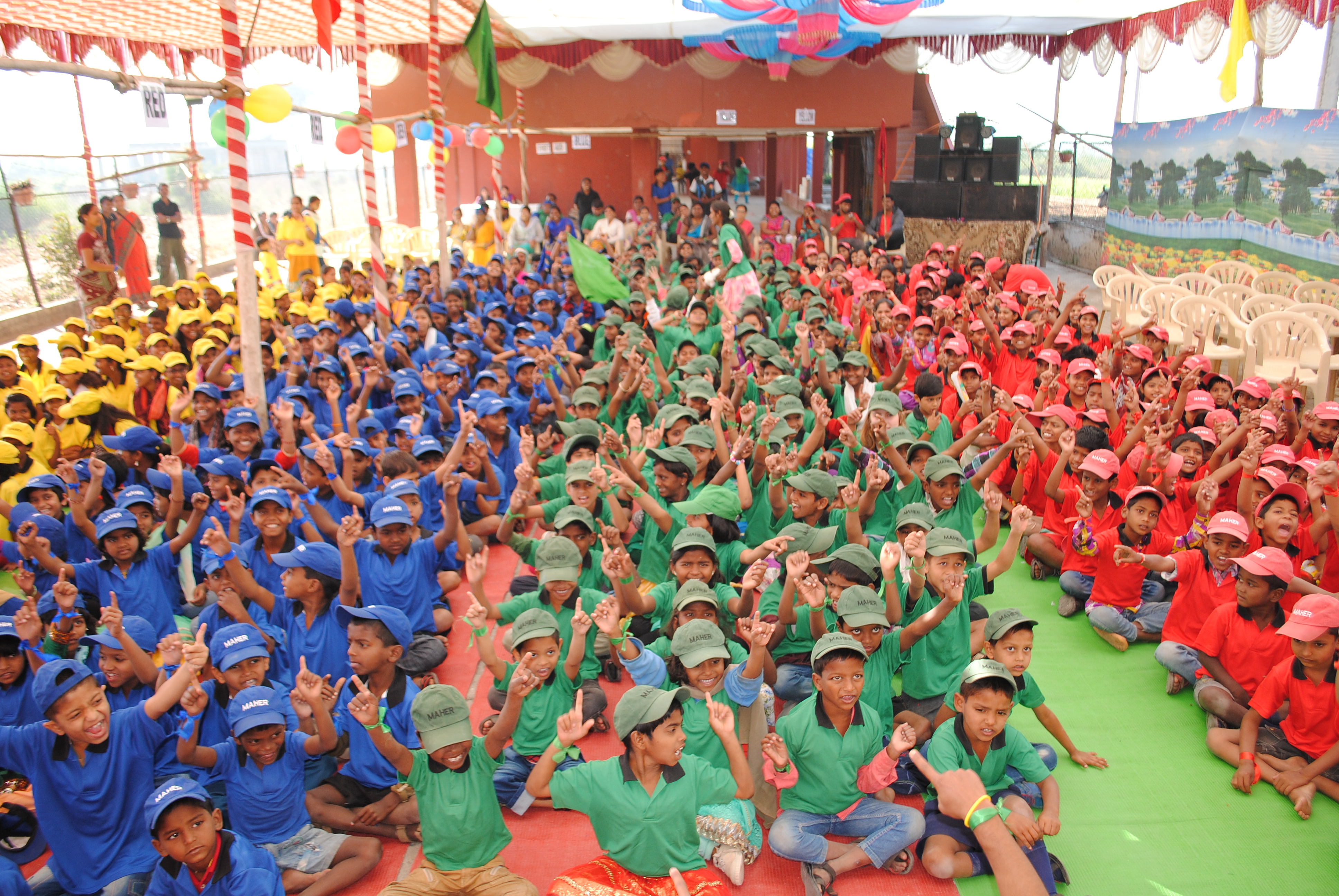 Children of Maher participating in a Sports Camp organized for them